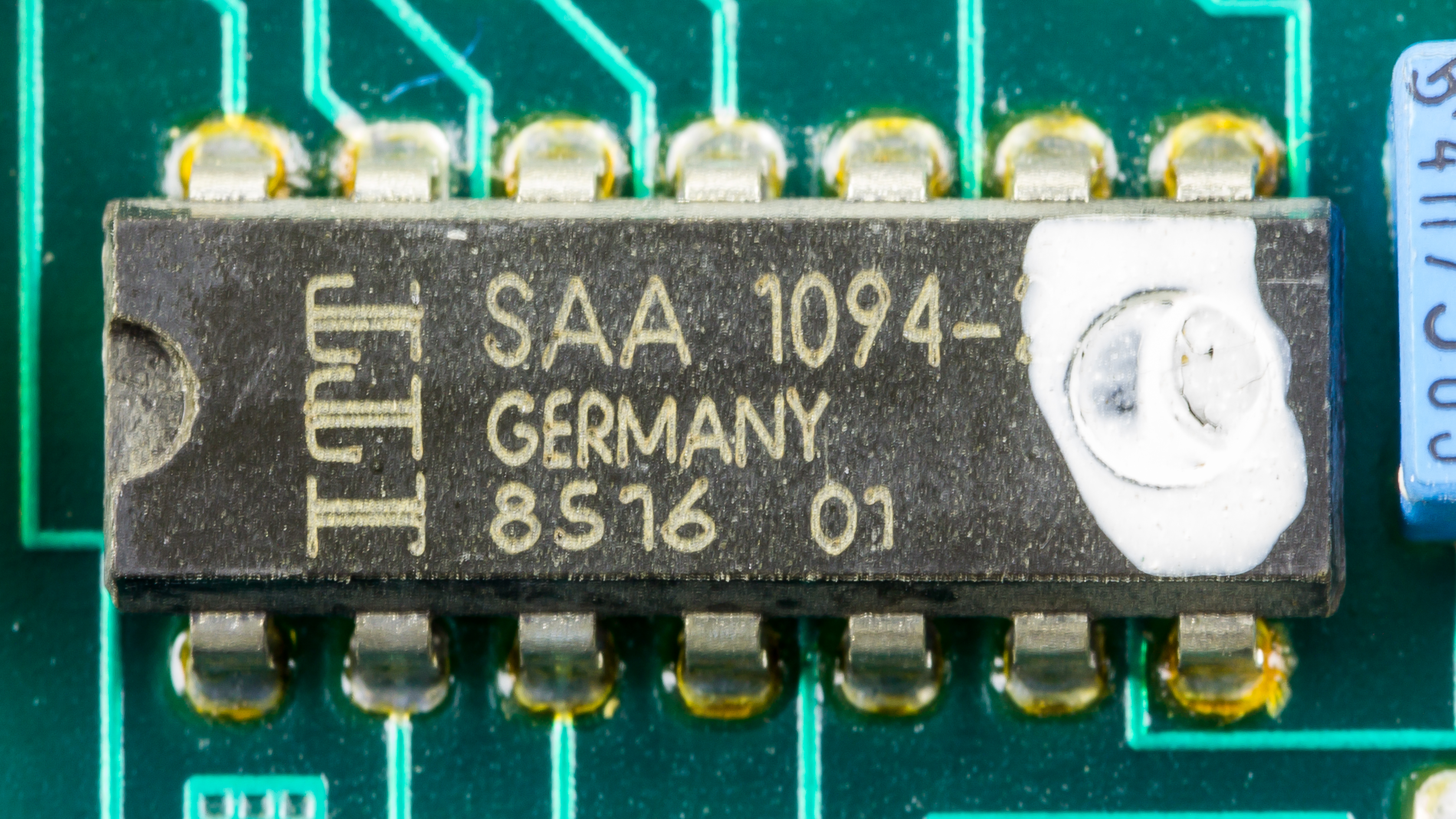 FeAp 92-1a - main PCB - ITT SAA 1094-2 - Tone Ringer IC